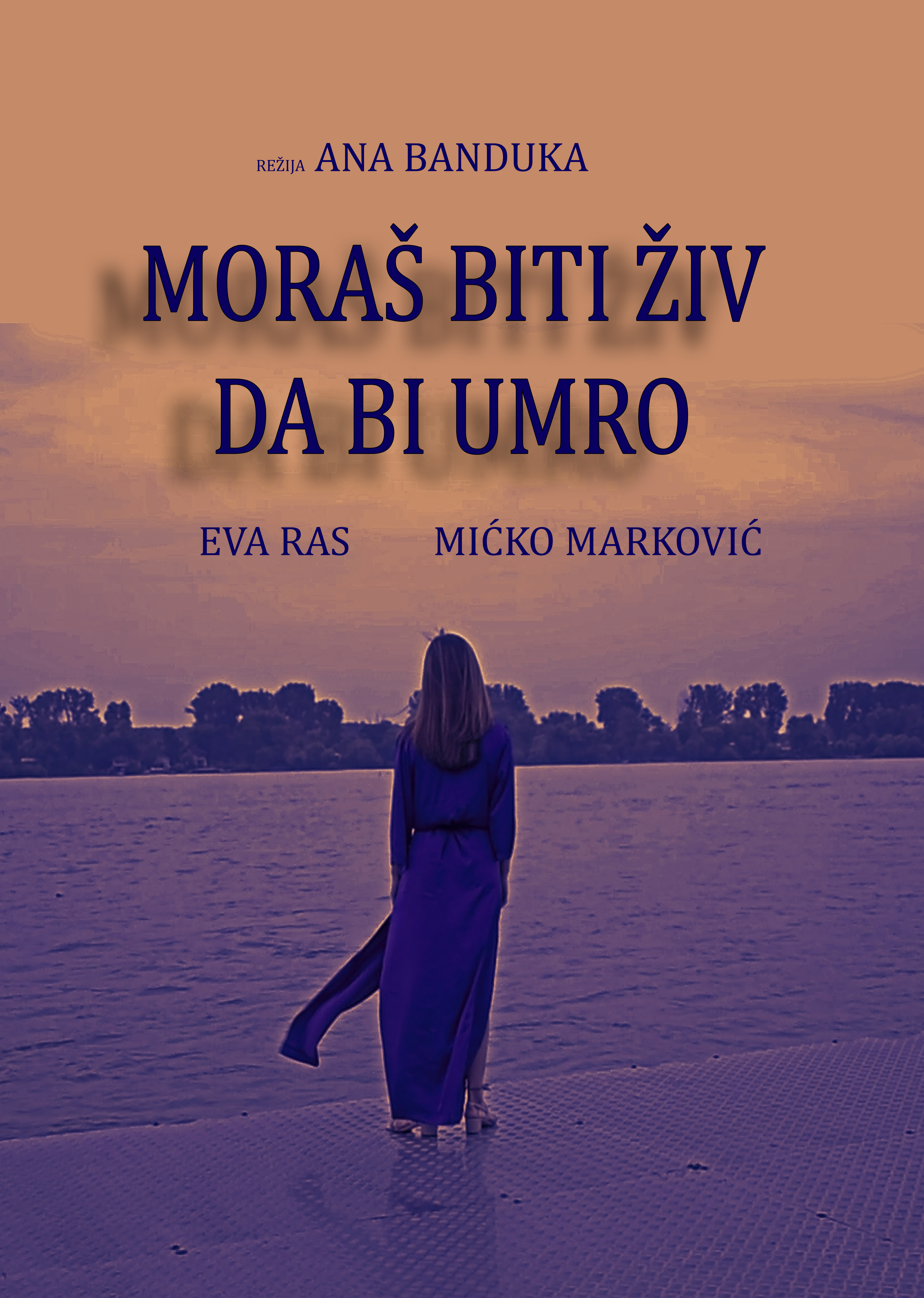 Moras biti ziv da bi umro